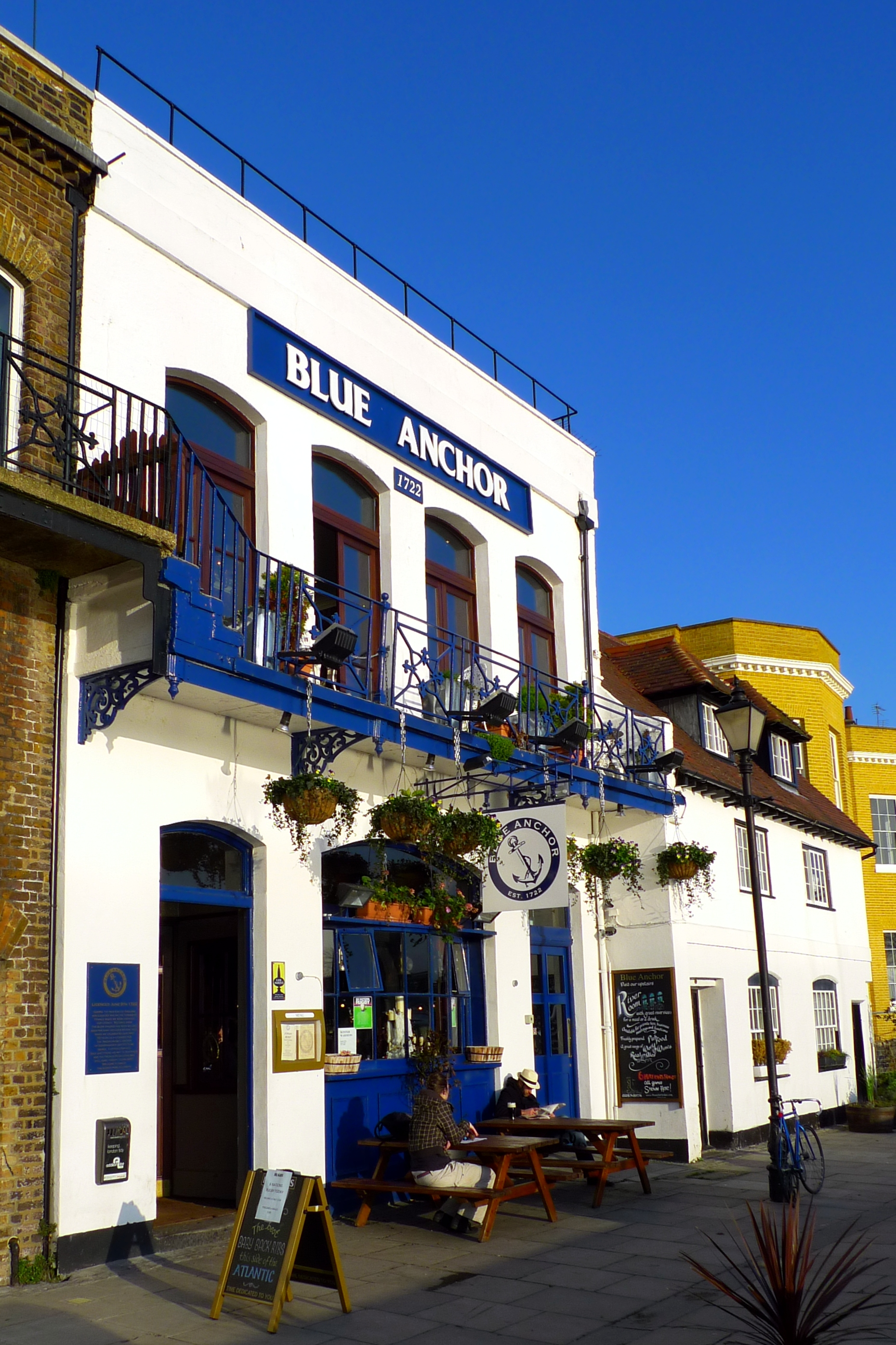 Perfectly decent historic riverside pub by Hammersmith Bridge. All their ale was off when I visited, though. Address: 13 Lower Mall. Owner: Enterprise Inns. Links: Randomness Guide to London Fancyapint Pubs Galore Beer in the Evening Dead Pubs (history)